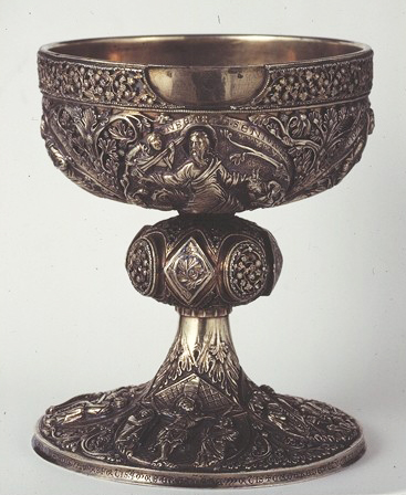 Ehtoolliskalkki kullattua hopeaa; Kalkin korkeus 23 cm, halkaisija 19 cm, teksti "Sifridus me fecit"